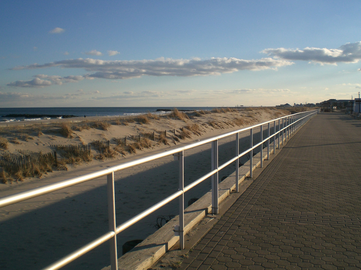 Bradley Beach, NJ. Taken by me.